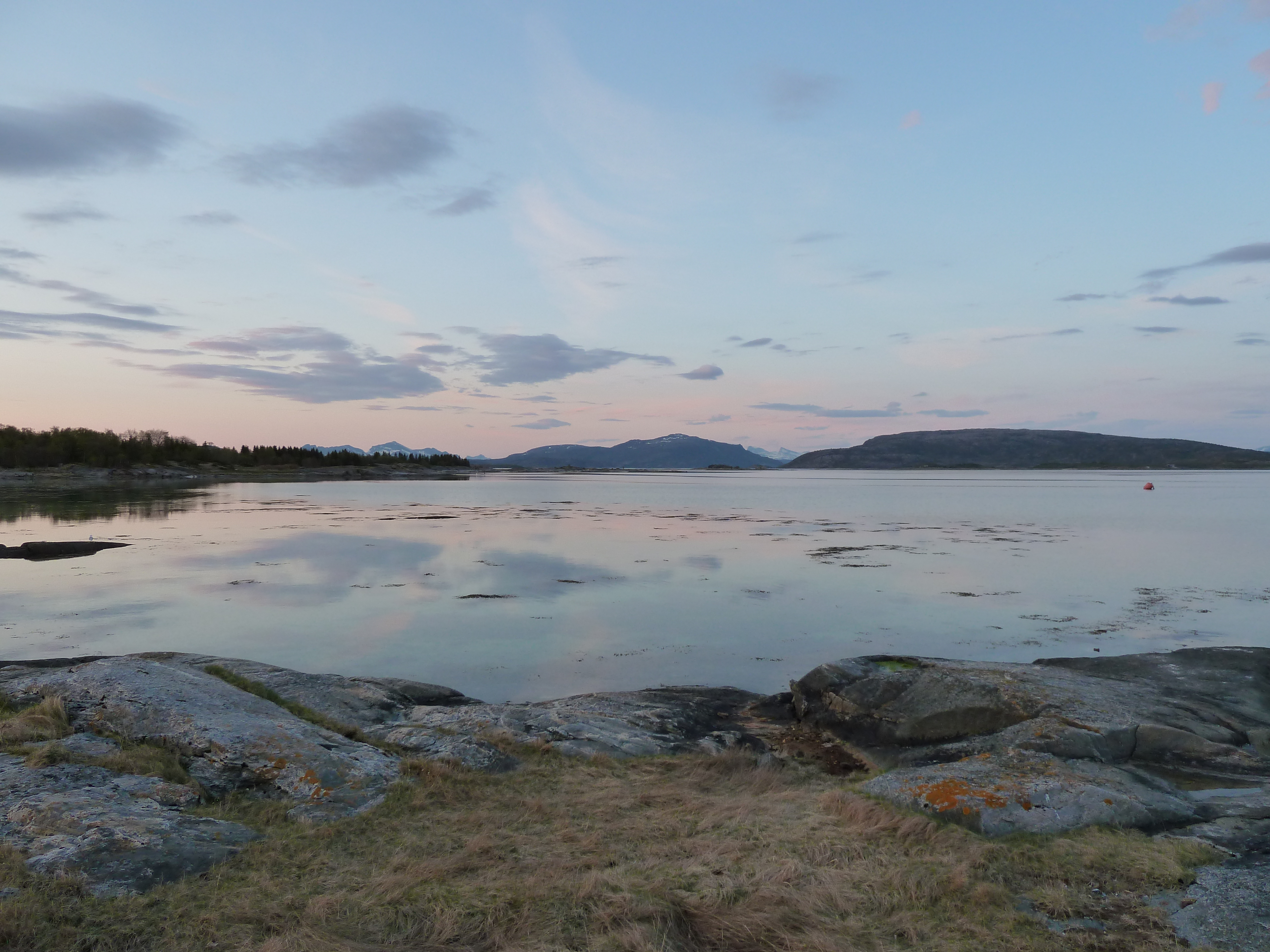 A view of Kaldvågfjorden in Hamarøy from Ness. Norsk (bokmål): Utsikt fra strandkanten på Ness i Hamarøy. Vårkveldsstemning over Kaldvågfjorden.